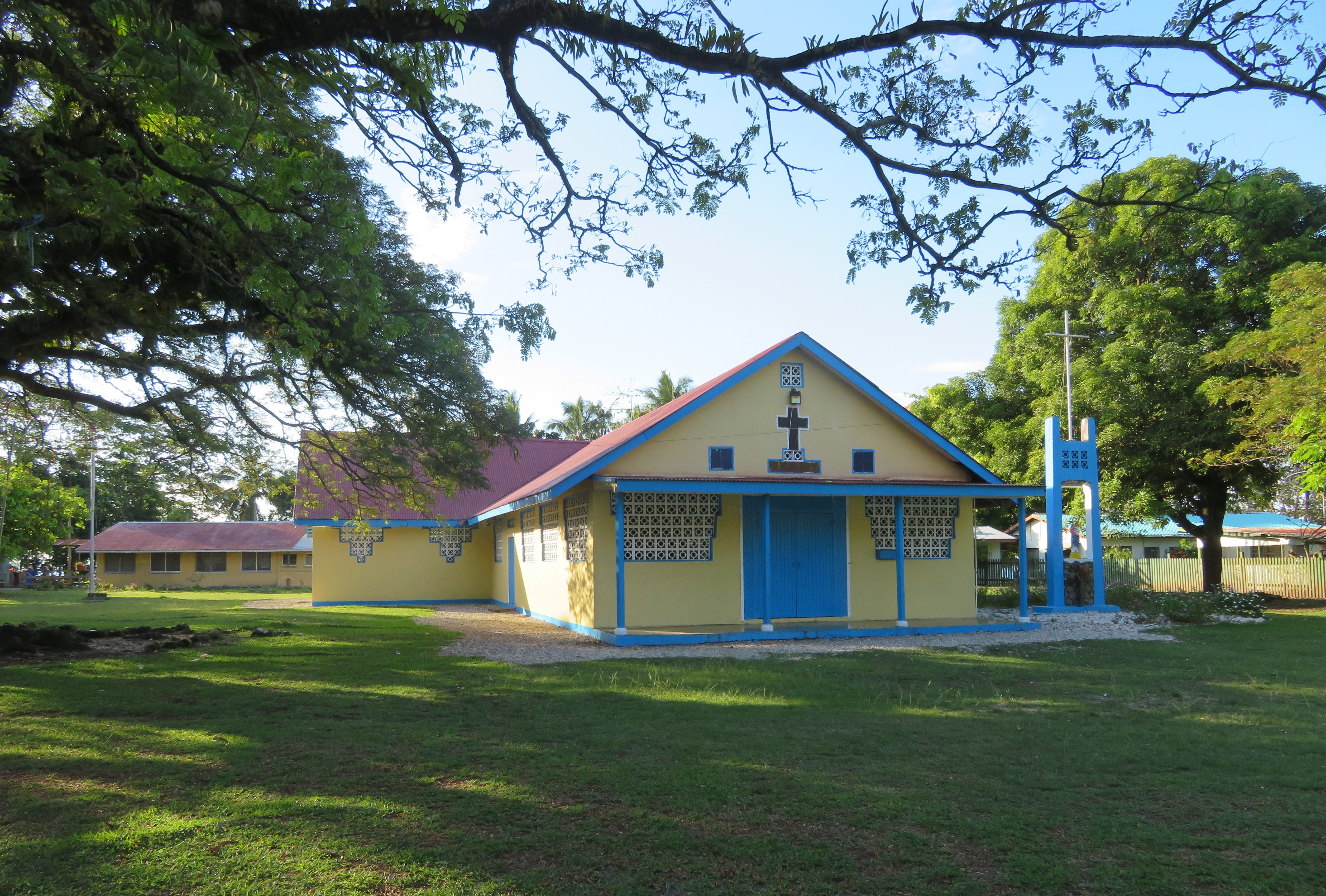 Roman Catholic Church, Tanagai, Guadalcanal Island, Solomon Islands